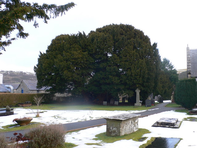 Ancient Yew, Llangernyw The oldest tree in Wales - 4-5000 years old, stands in the churchyard in Llangernyw.